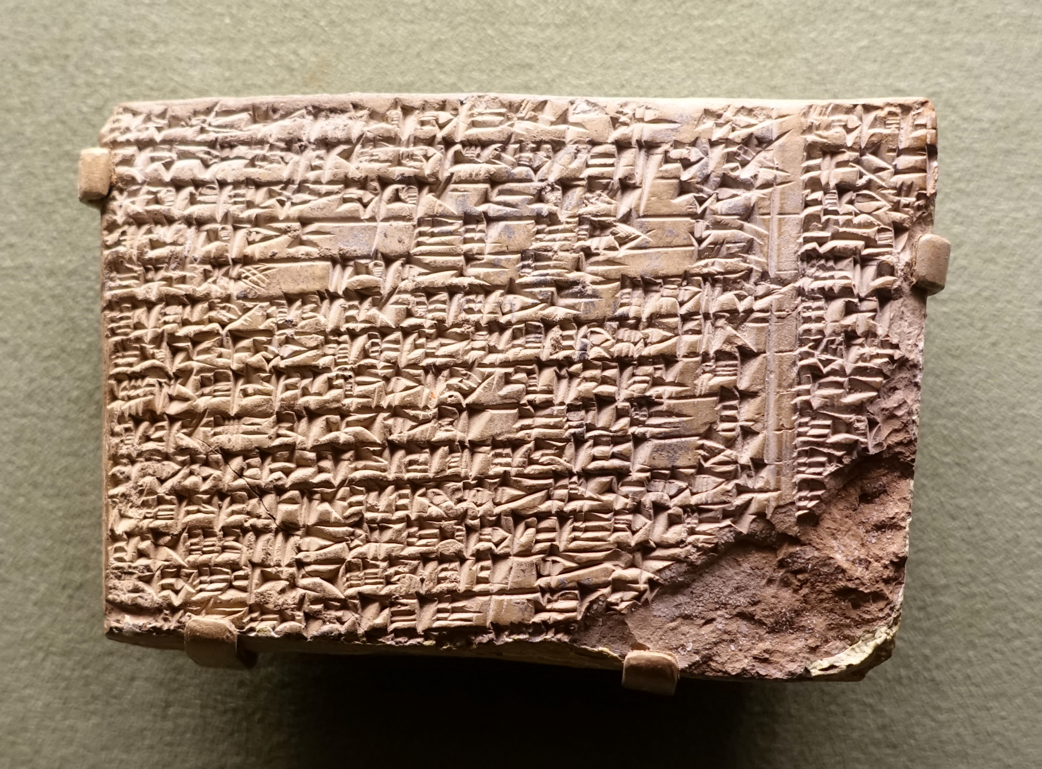 Exhibit in the Morgan Library & Museum - New York City, New York, USA.